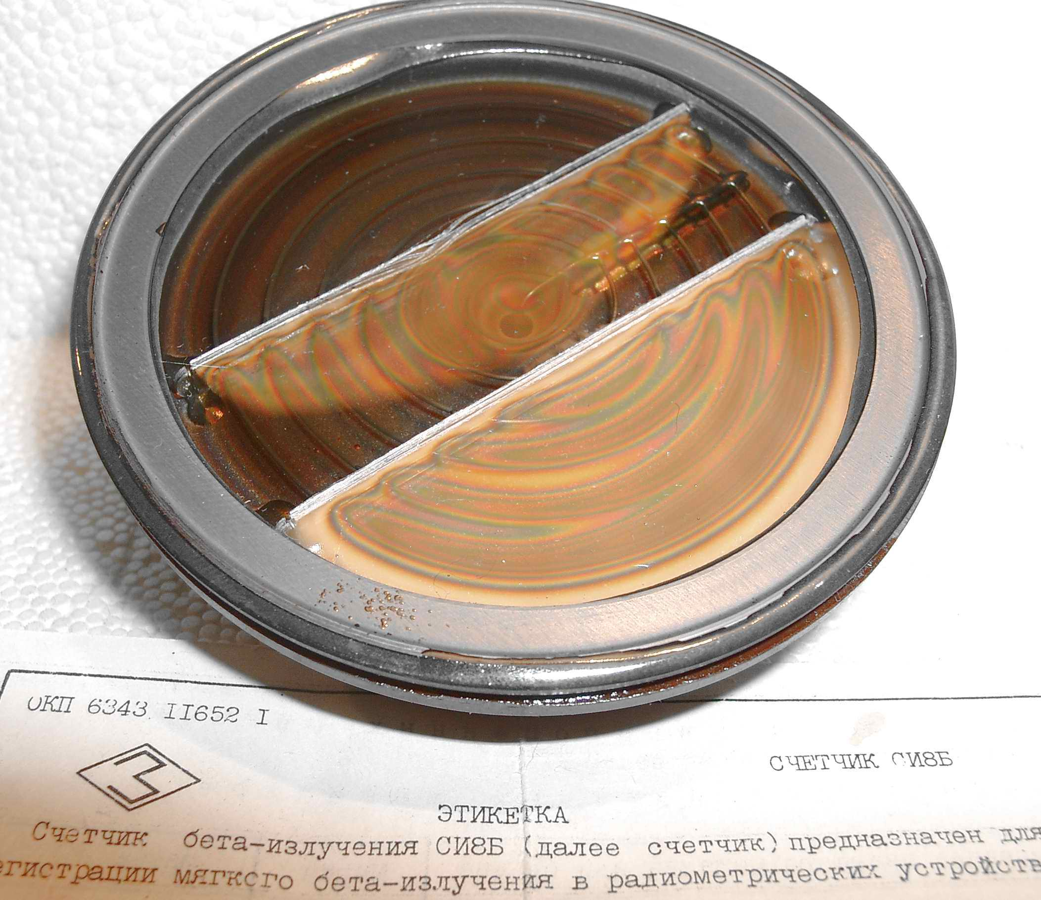 Geiger tube SI8B (exUSSR made) for weak beta rays.